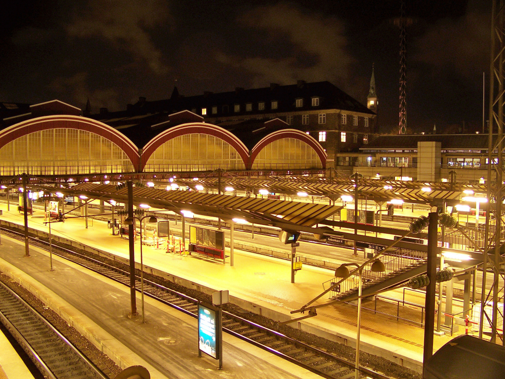 Night view over Copenhagen Central Station, November 2007.